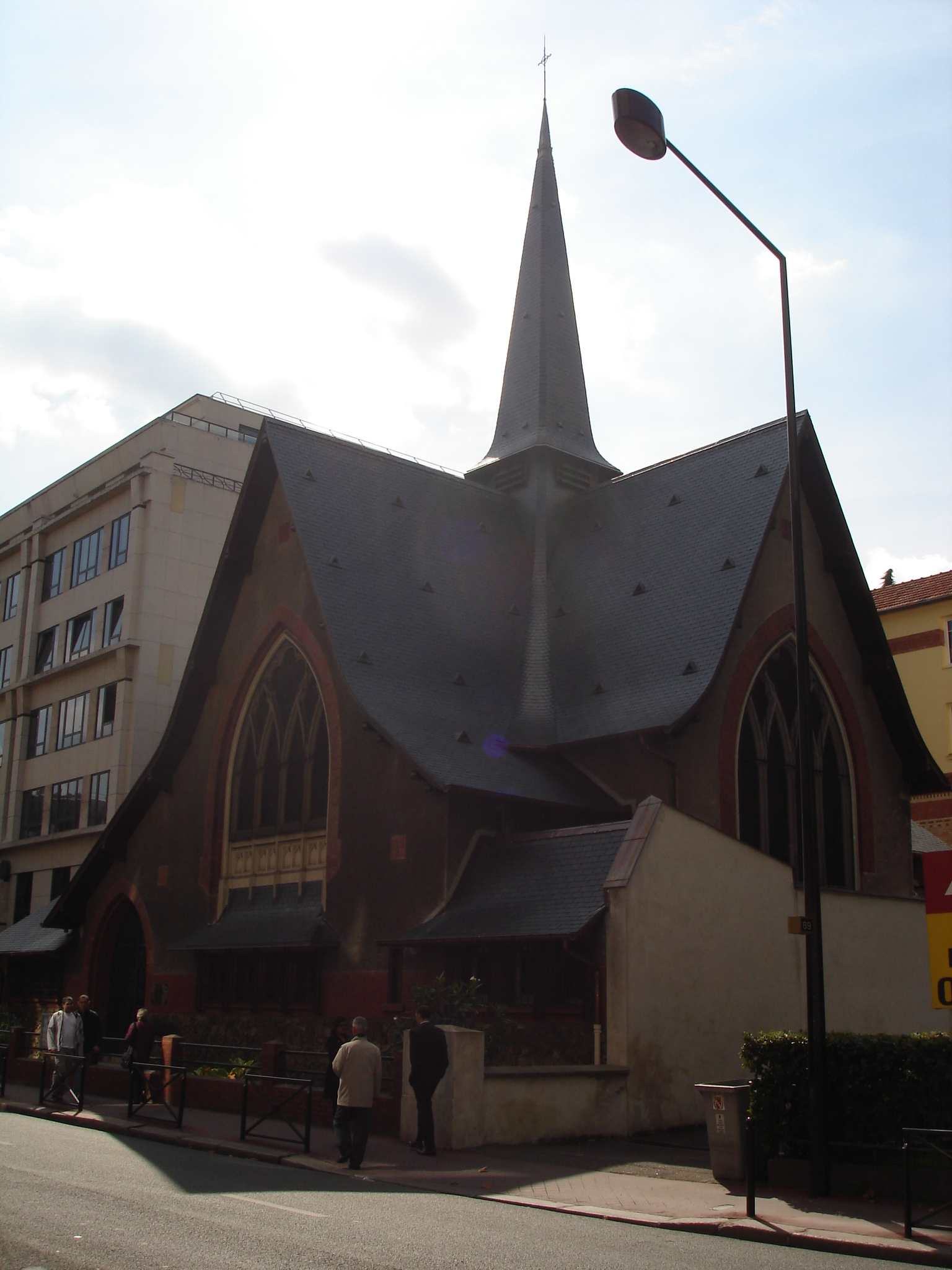 Protestant church named "La petite Etoile" (The Little Star), located rue Anatole-France at Levallois, suburb of Paris